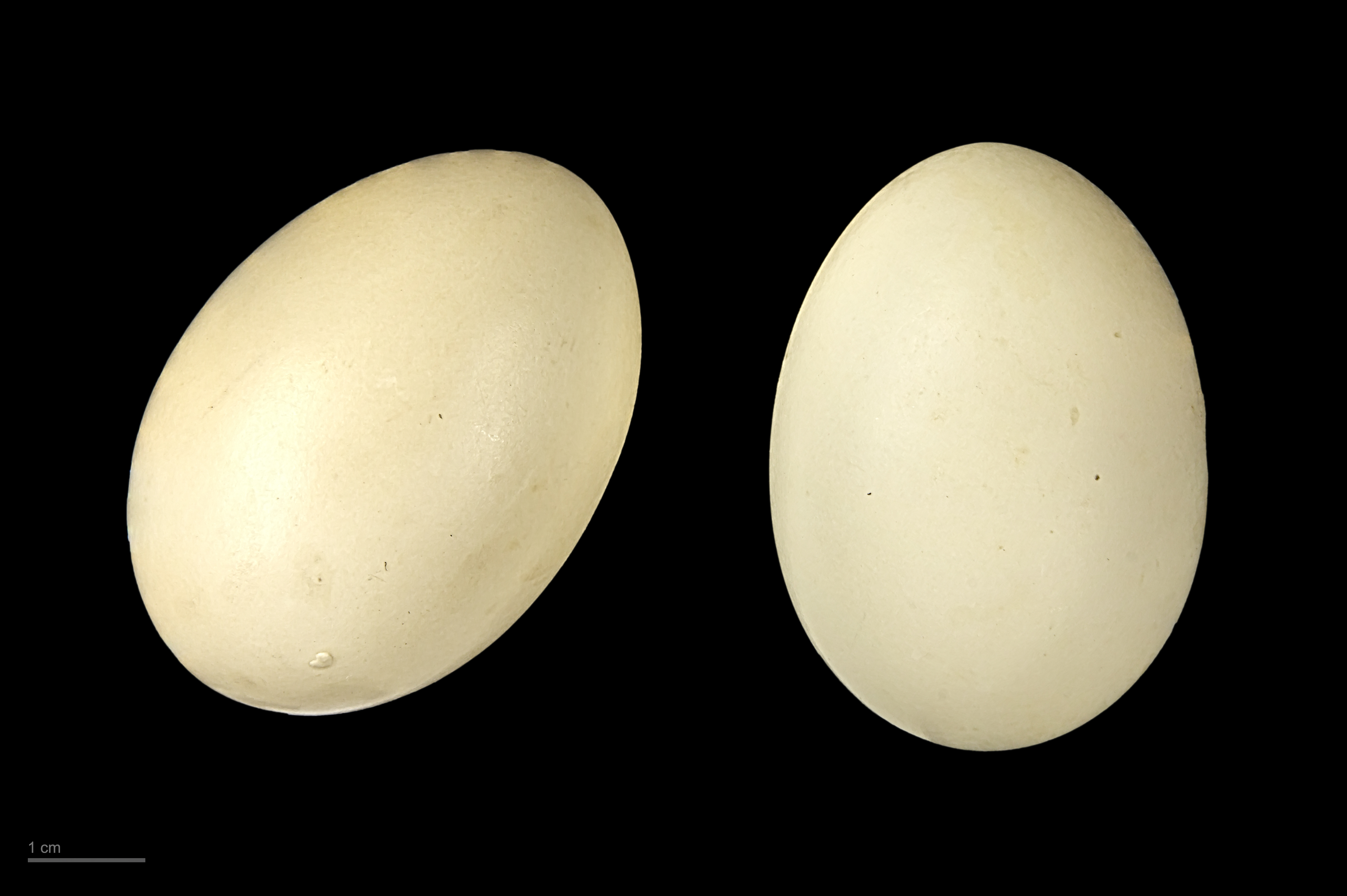 Egg of marbled duck Collection of Jacques Perrin de Brichambaut.